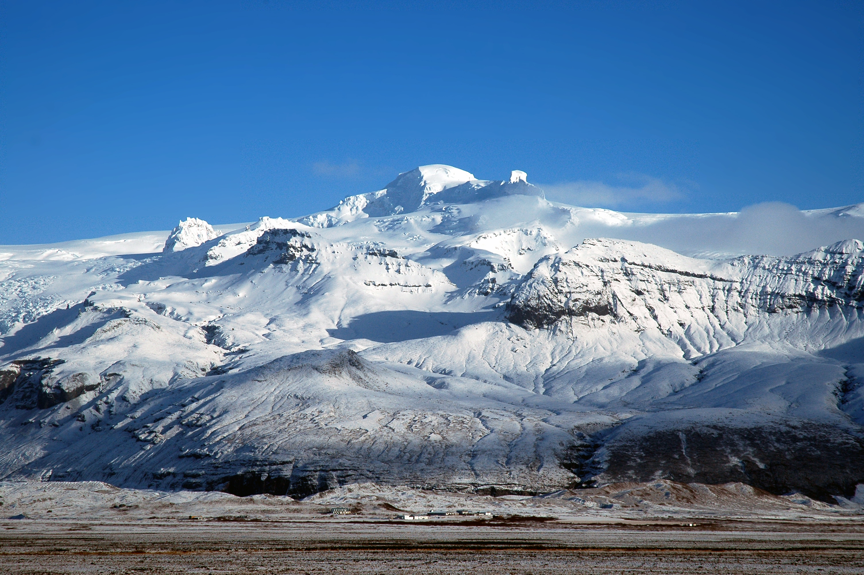 Hvannadalshnúkur, Iceland's highest peak.